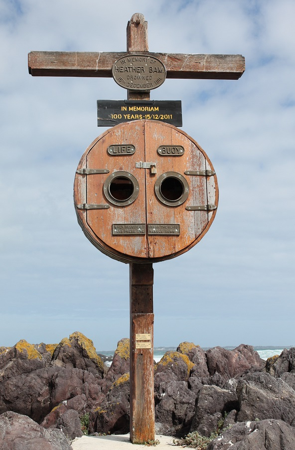 This monument was erected in memory of Heather Bam who drowned tragically, while on holiday with her family in December 1911. This monument currently stands in Bloubergstrand to the left of Ons Huisie and in front of the Lochner House. This media shows a South African Protected Site with SAHRA file reference NEW.